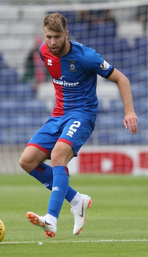 Shaun Rooney in Action